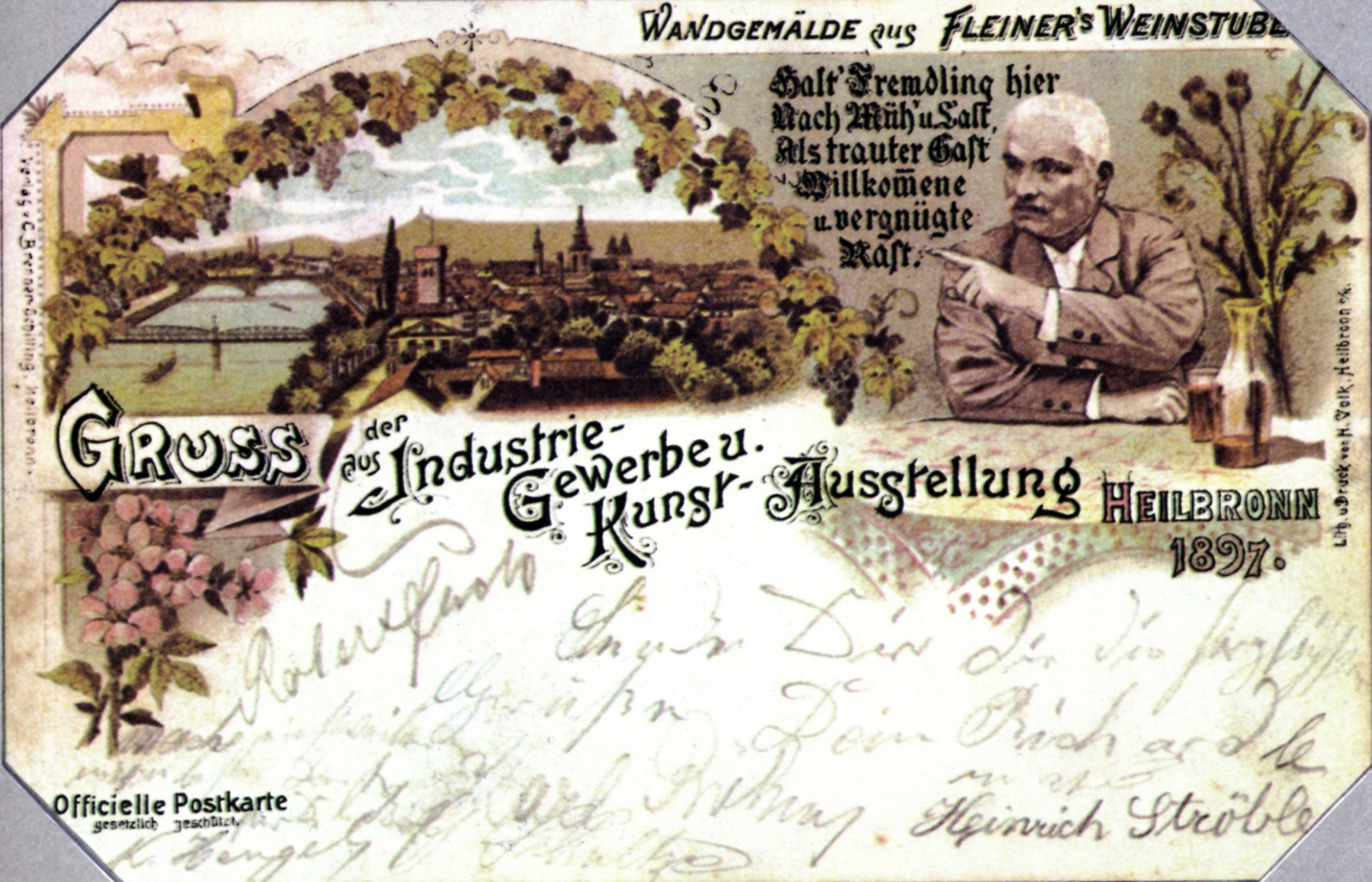 Postcard of a fair in Heilbronn 1897